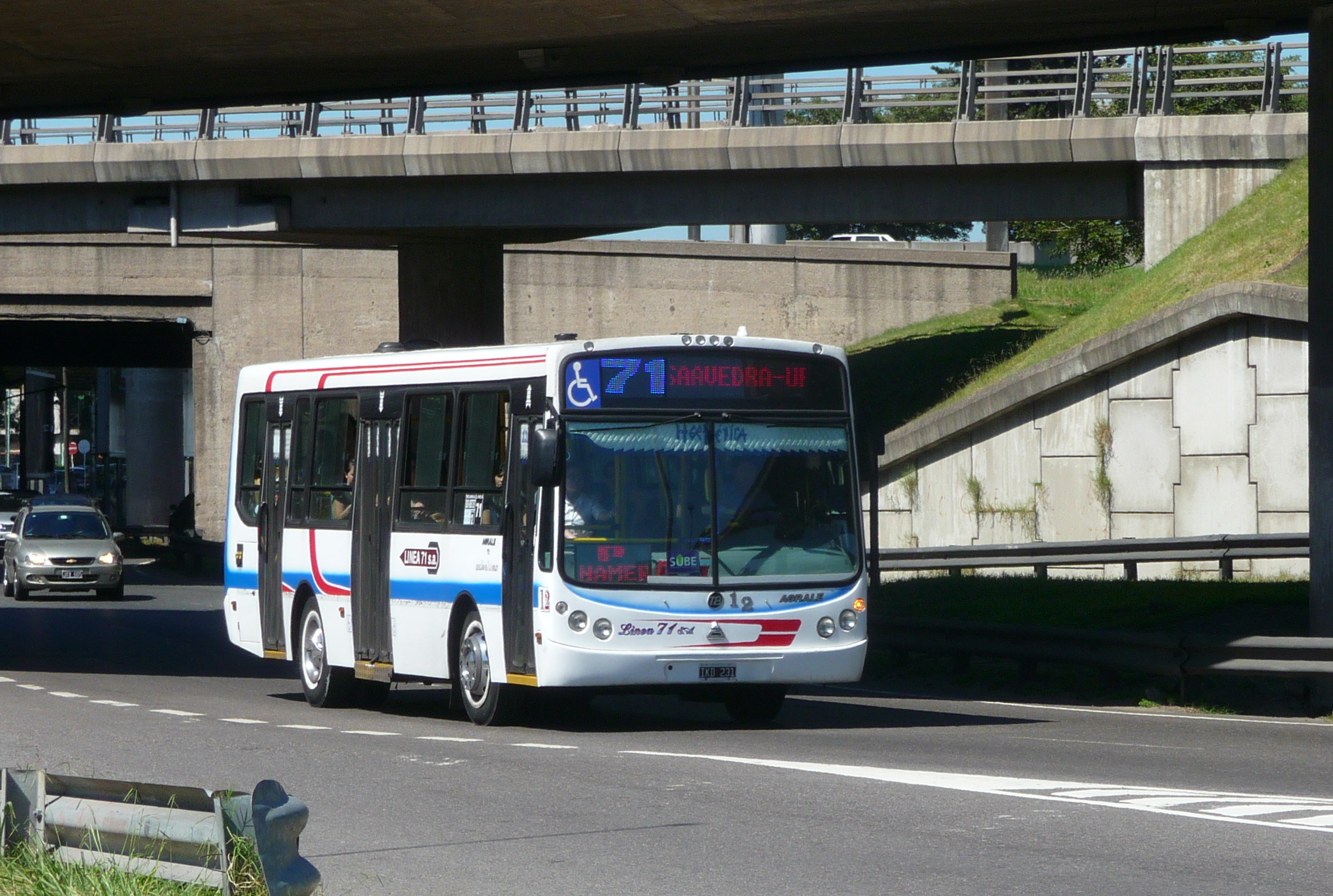 Todo Bus bus (reg. IKD 231 or IKO 231, #12) with Agrale chassis in Buenos Aires, Argentina. Colectivo, line 71, Linea 71 S.A. operator.